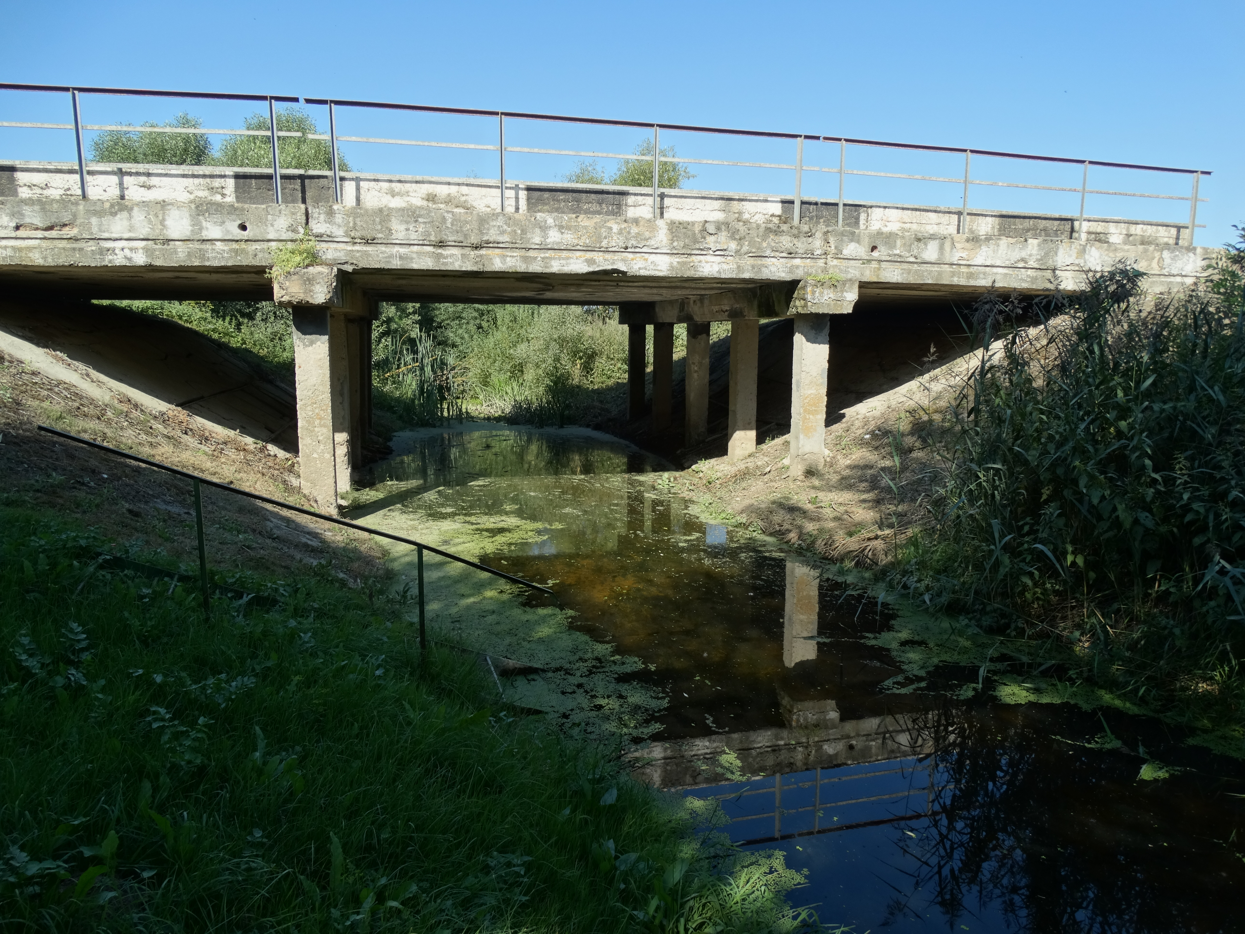 Sidabra Stream (tributary of Platonis), Joniškis district, Lithuania